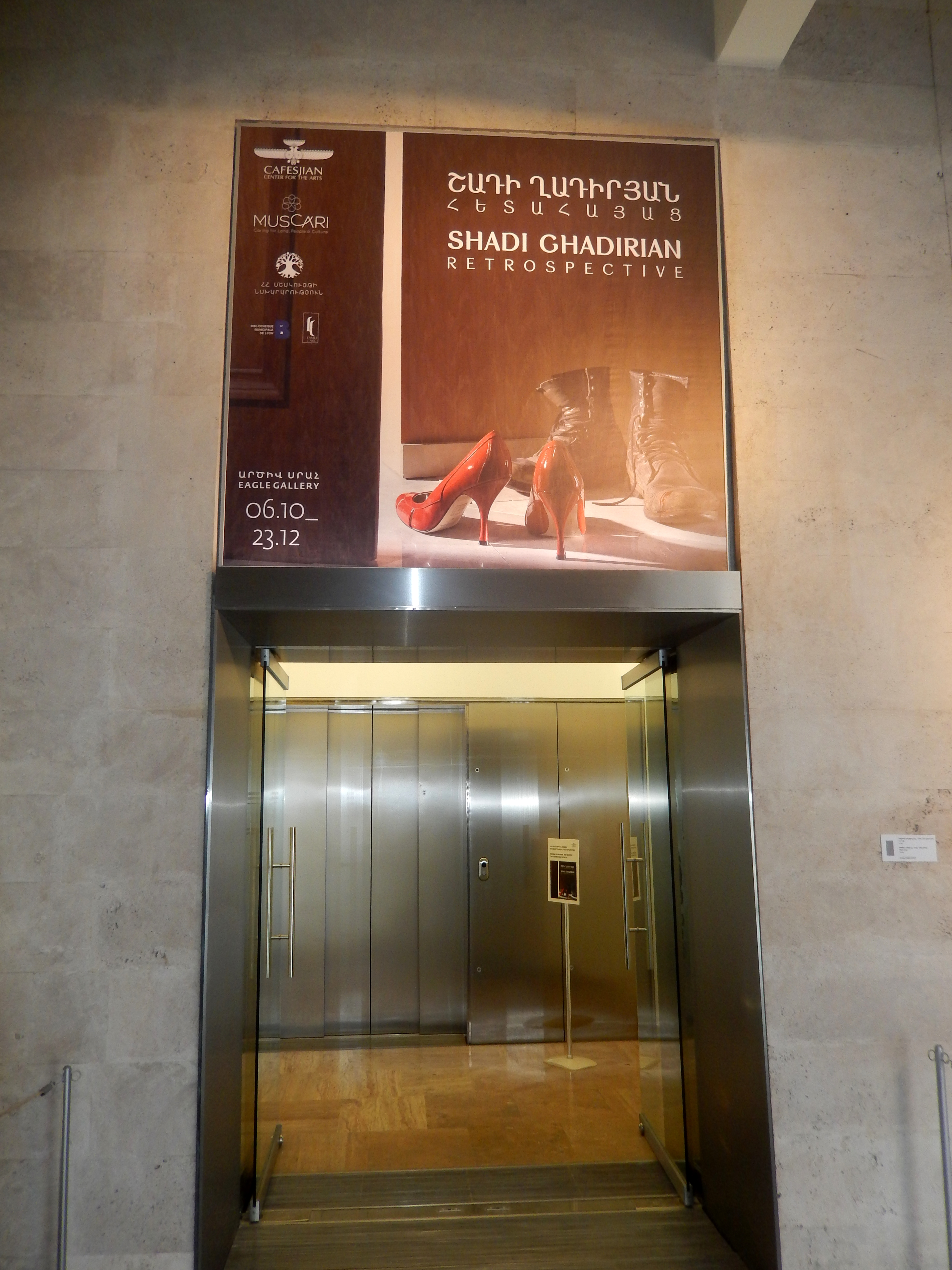 Wiki loves Yerevan tour in Cafesjian Center for the Arts